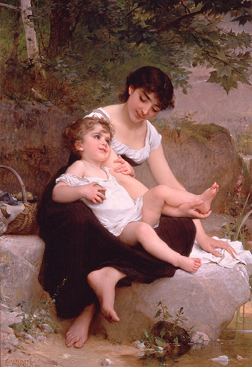 Mother and child